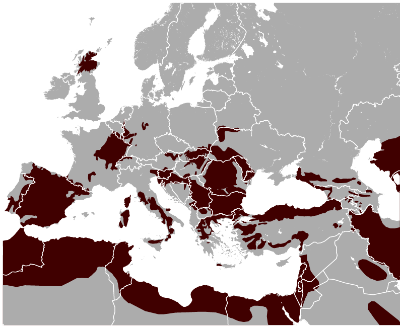 Geographical distribution of the Wild Cat Felis silvestris in Europe. The map was created using the Generic Mapping Tools, GMT, version 5.1.2.